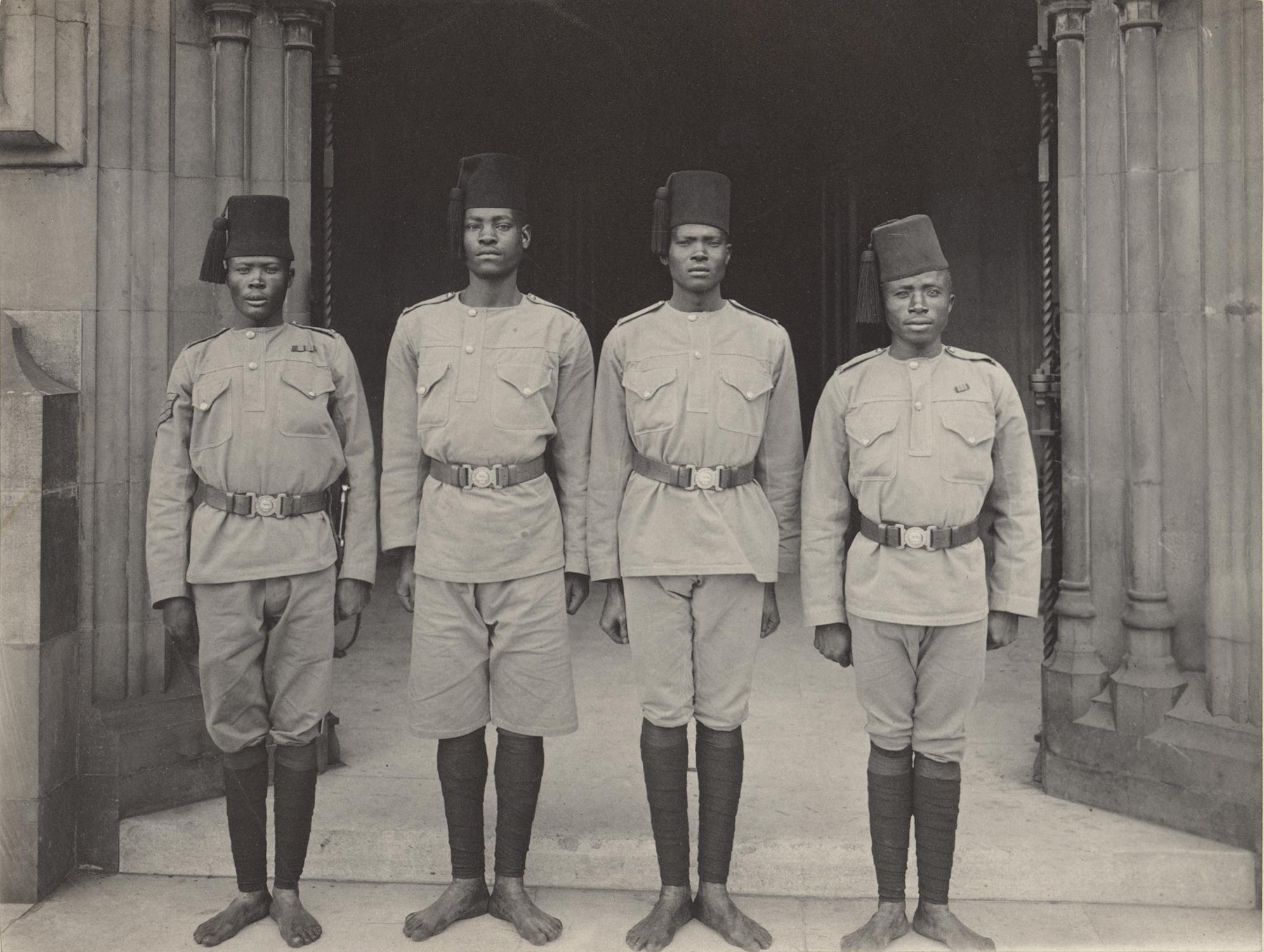 Four soldiers of King Edward VII's African Rifles, by Sir (John) Benjamin Stone (died 1914), given to the National Portrait Gallery, London in 1974. All images in this batch have been confirmed as author died before 1939 according to the official death date listed by the NPG.